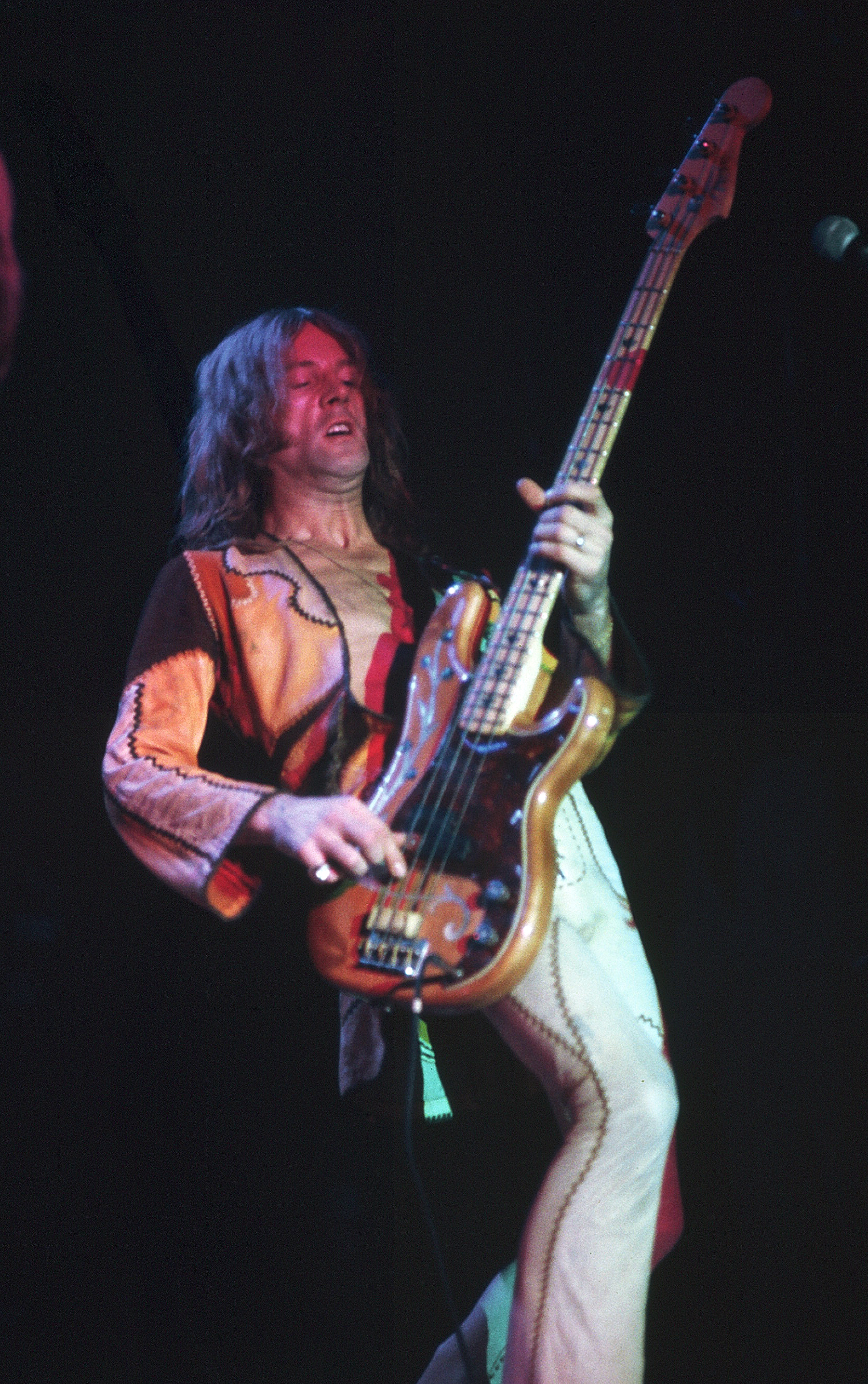 Greg Ridley, English rock musician of Humble Pie